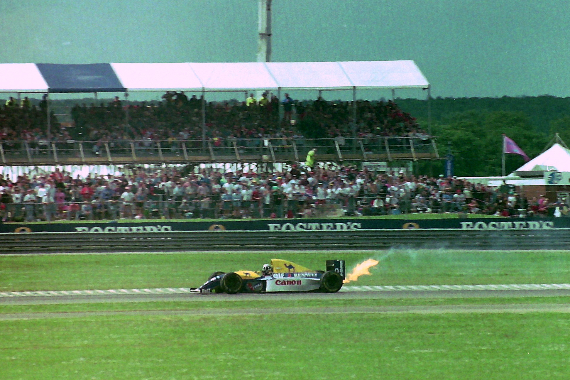 The end of the day for Damon Hill, retiring while in the lead at the 1993 British Grand Prix